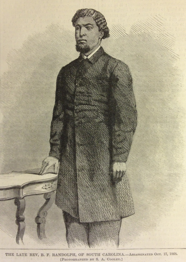 Image of Benjamin F. Randolph, state senator, Orangeburg, SC